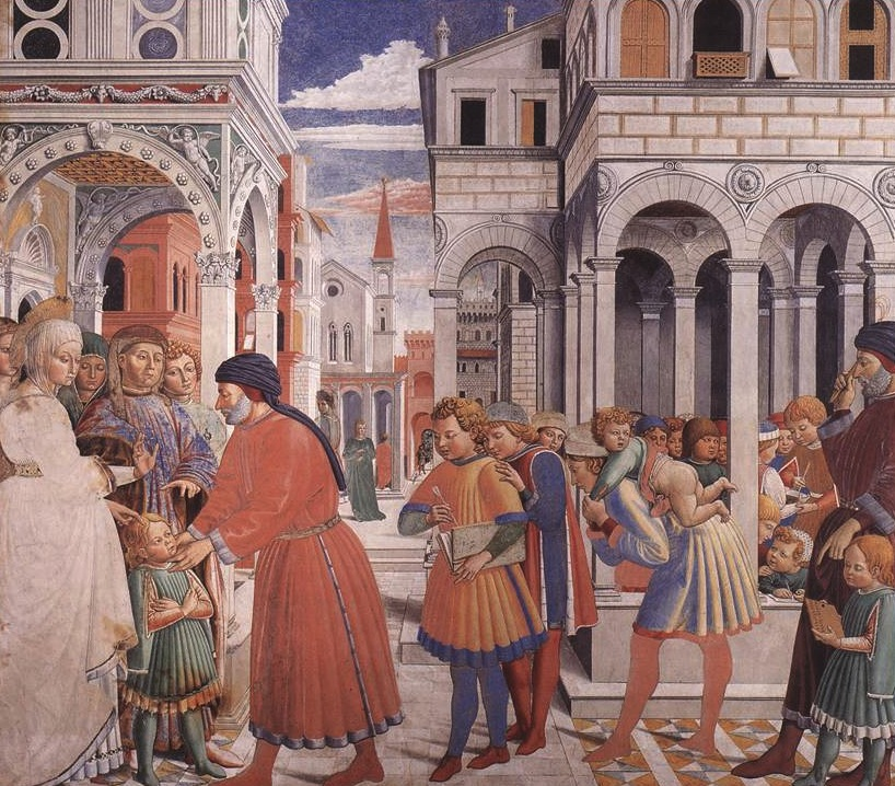 augustine at the school of tagaste